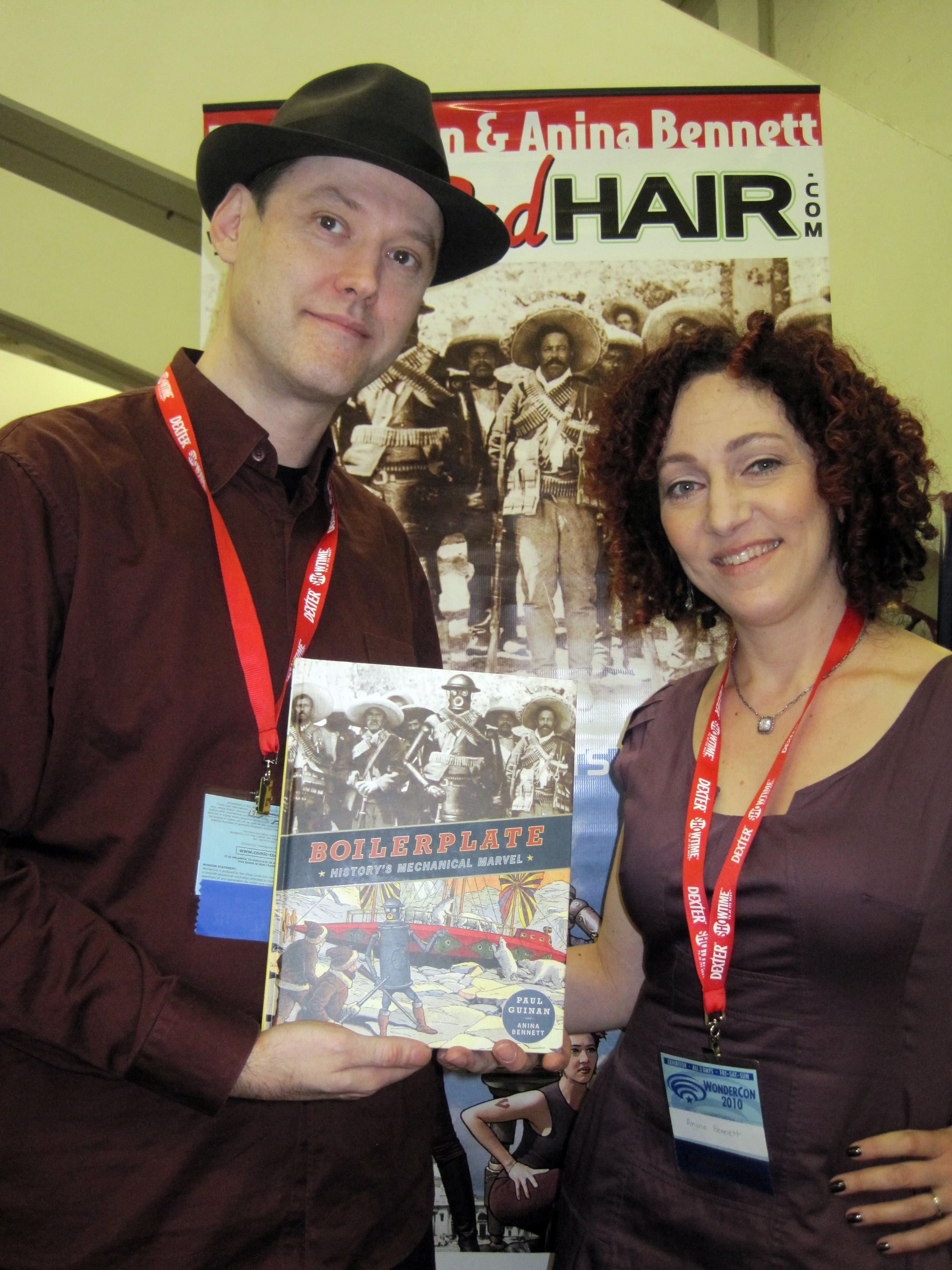 Husband and wife team Paul Guinan and Anina Bennett, the authors of Boilerplate: History's Mechanical Marvel, at WonderCon 2010.